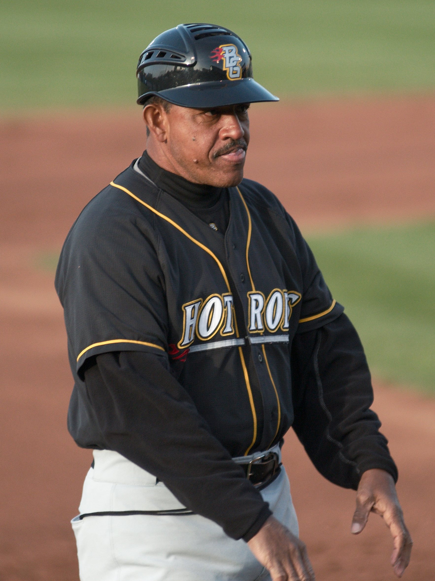 Manny Castillo coaches for the Bowling Green Hot Rods during a game a game in 2010.